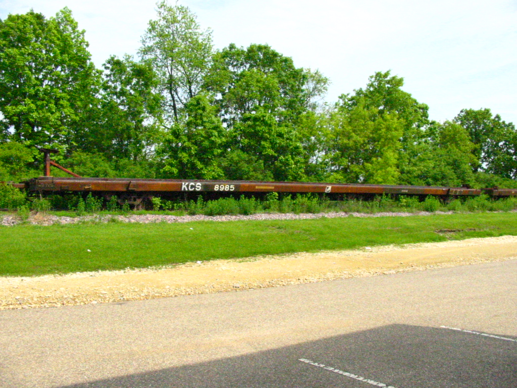 Kansas City Southern number 8985, a flatcar, in storage in Madison, May 29, 2004. Photo by Sean Lamb (User:Slambo).